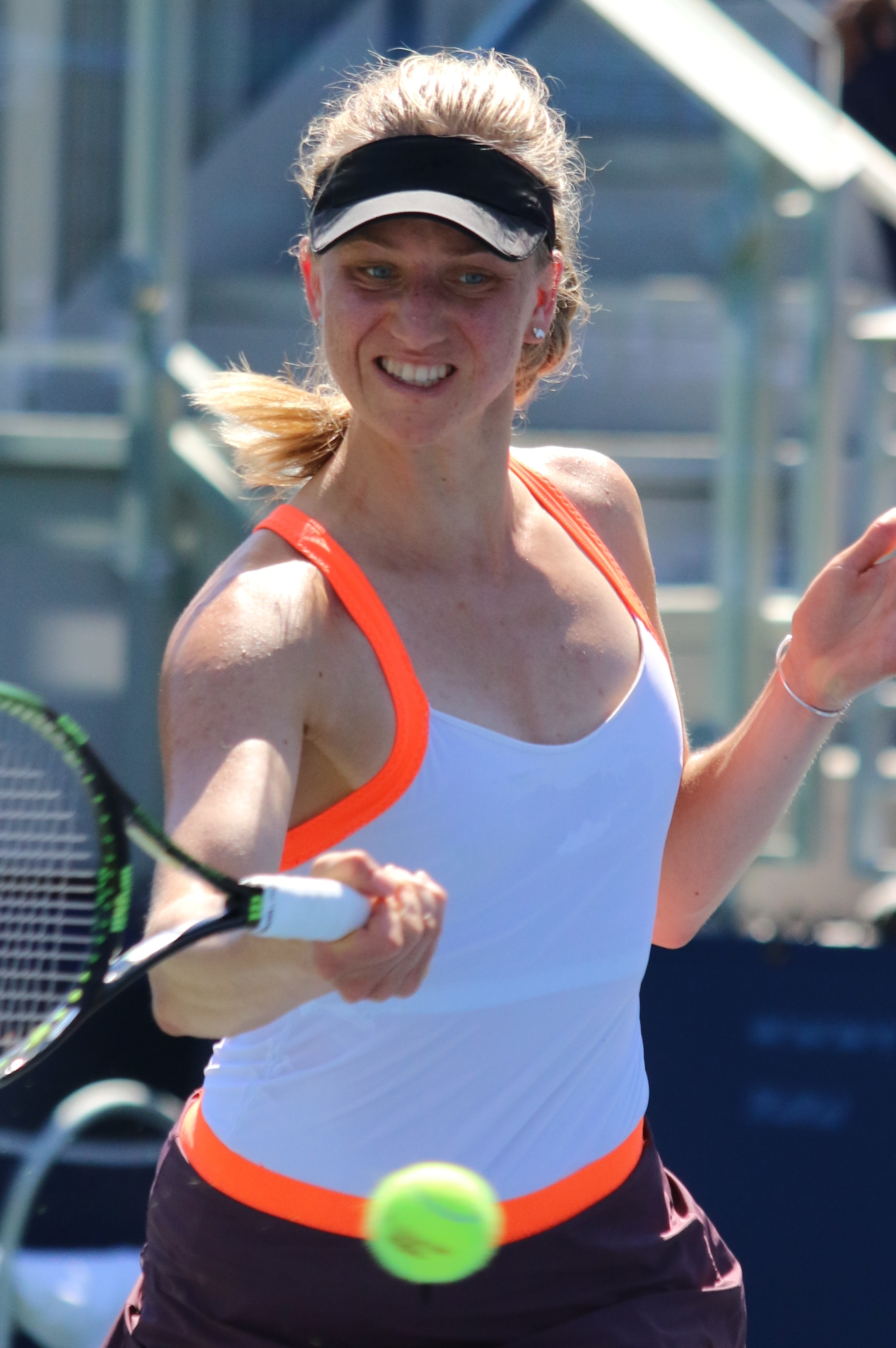 Barthel US16 (15)